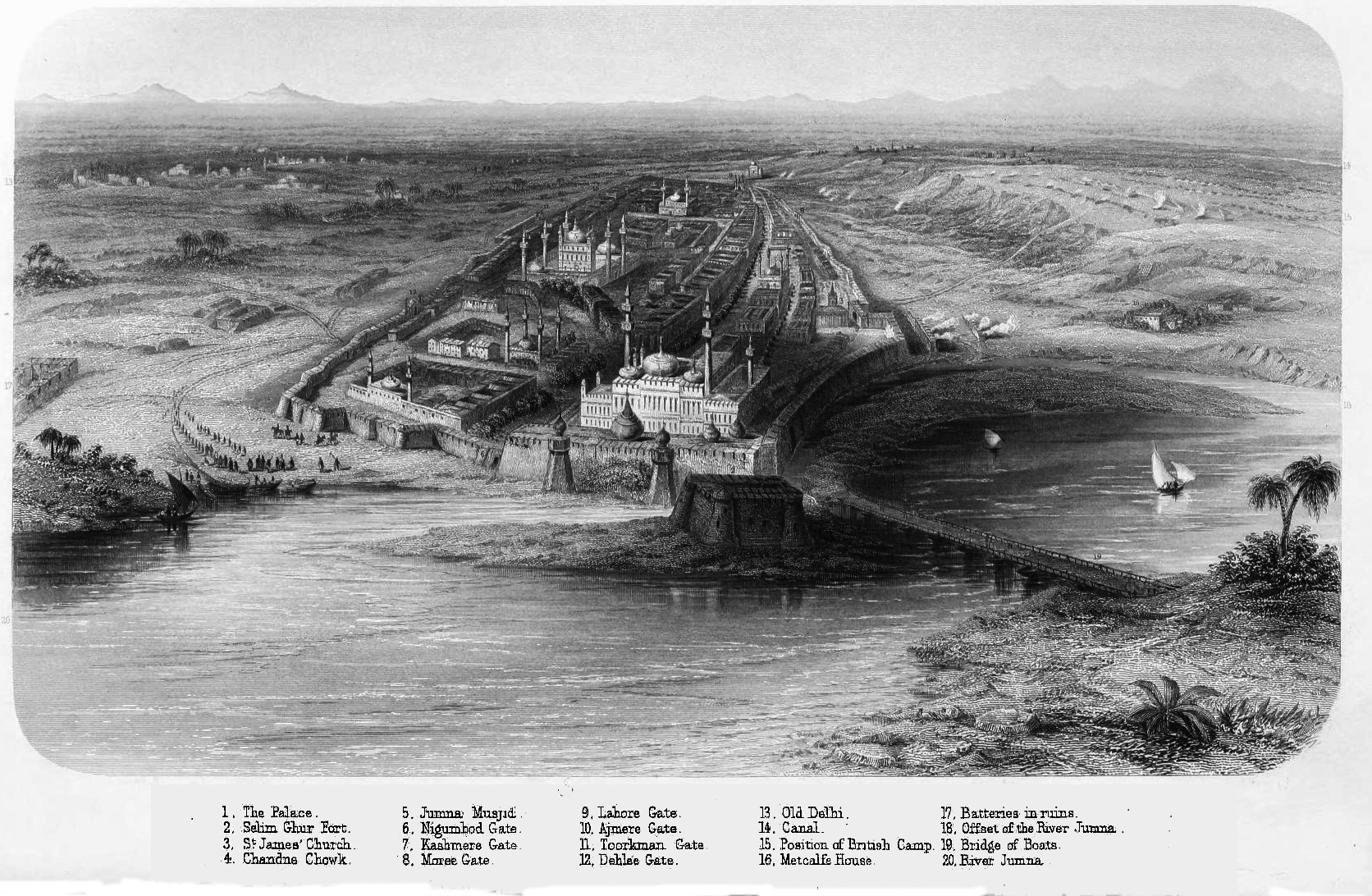 Panoramic view of Old (in the left side) and New Delhi around or before 1857. River Jumna with a bridge of boats. Nigumhod Gate, Moree Gate, Lahore Gate and other gates. Selim Ghur Fort (Salimgarh Fort), The Palace, Jahanara Begum's caravanserai (?) at Chandni Chowk (4). 'Metcalfe House' near the river bank. The line of sight is approximately to the southwest, the mountains in the background are probably fantasy mountains.